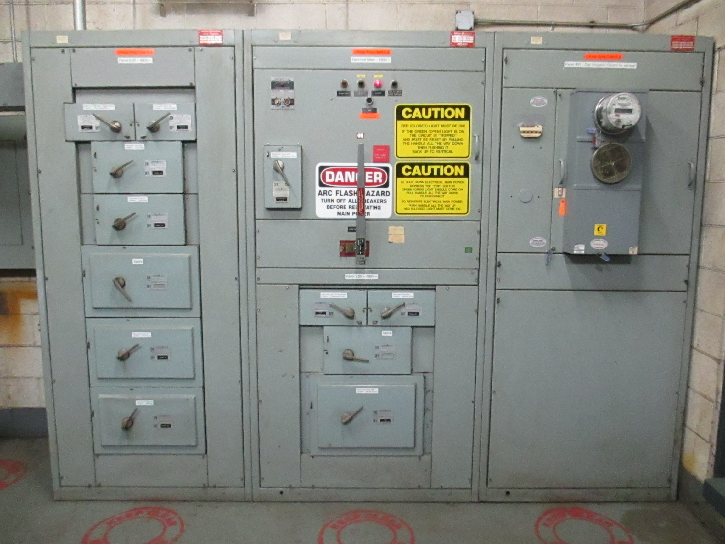 An electrical main and main distribution panel for a large facility. Due to the voltage and incoming wire size, the main switch gear requires level-4 arc-flash protection to turn on.